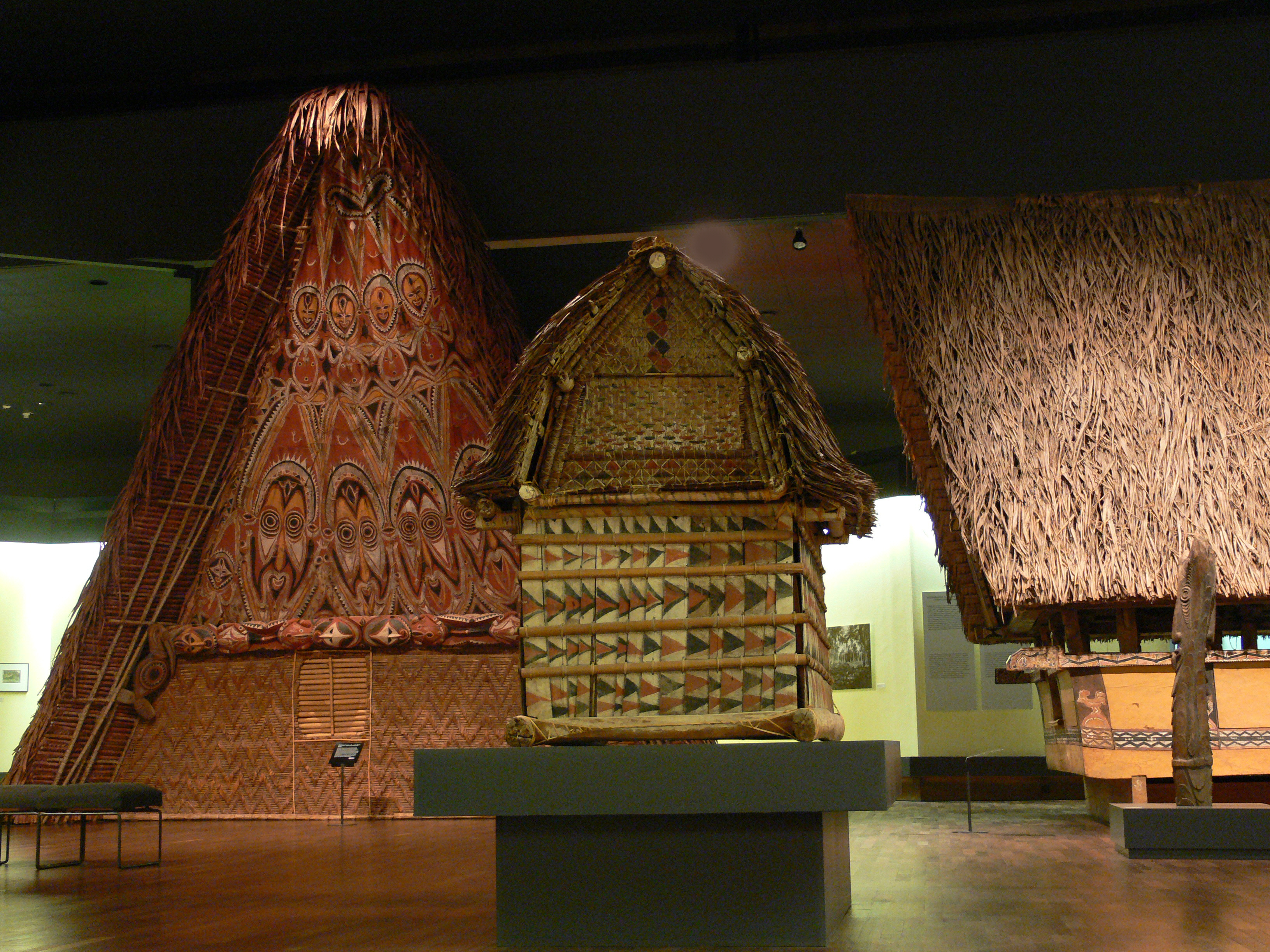 Melanesia department. Ethnological Museum, Berlin-Dahlem.